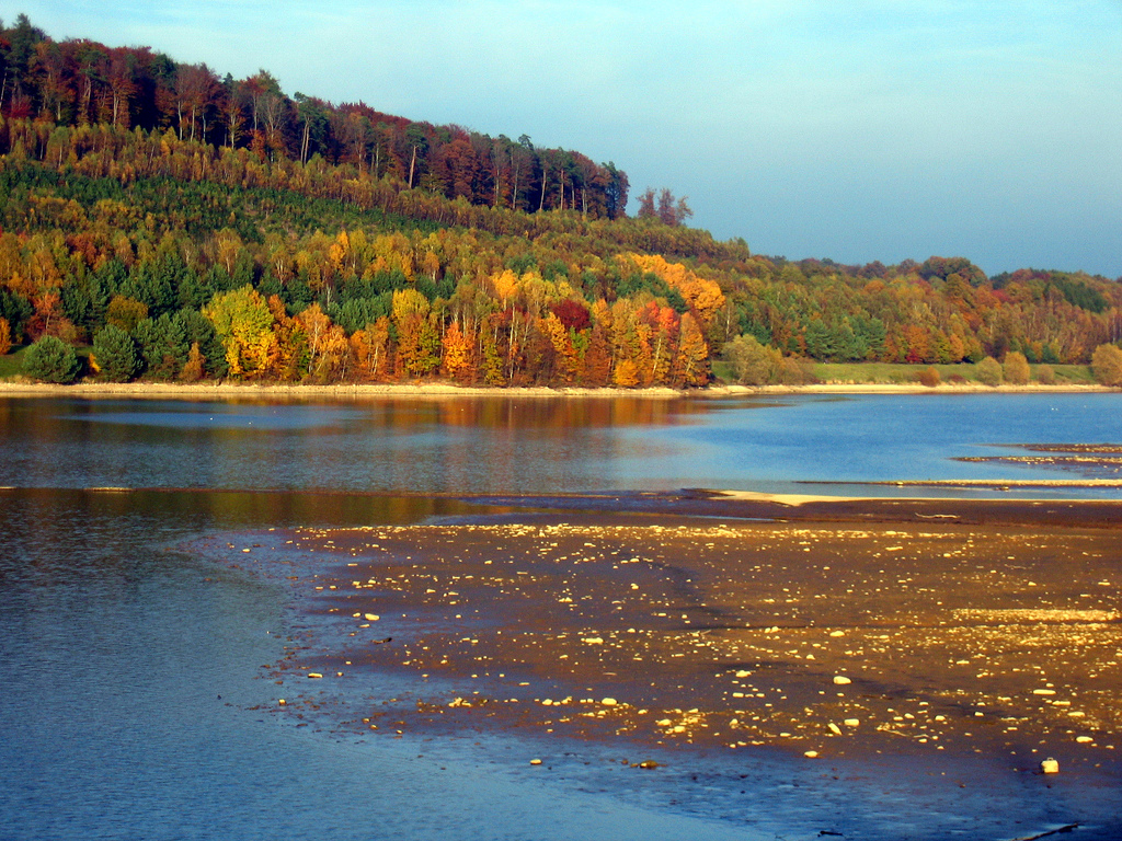 Indian Summer at the Kinzigtalsperre (Kinzig dam) near Bad Soden-Salmünster in Hessen, Germany 27 Oct 2005. The water level is lowered as Winter approaches to regulate flooding.